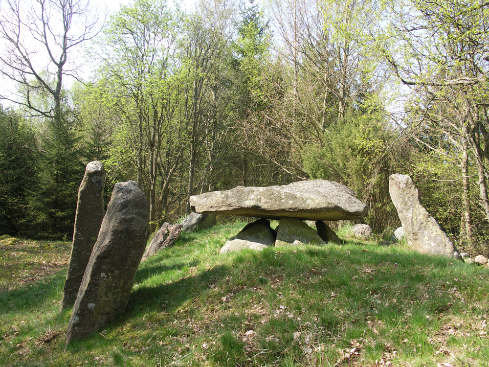 The long dolmen in Vrångstad (RAÄ number Bottna 141:1) in Bottna parish, Tanum municipality, Bohuslän, Västra Götaland county, Sweden.